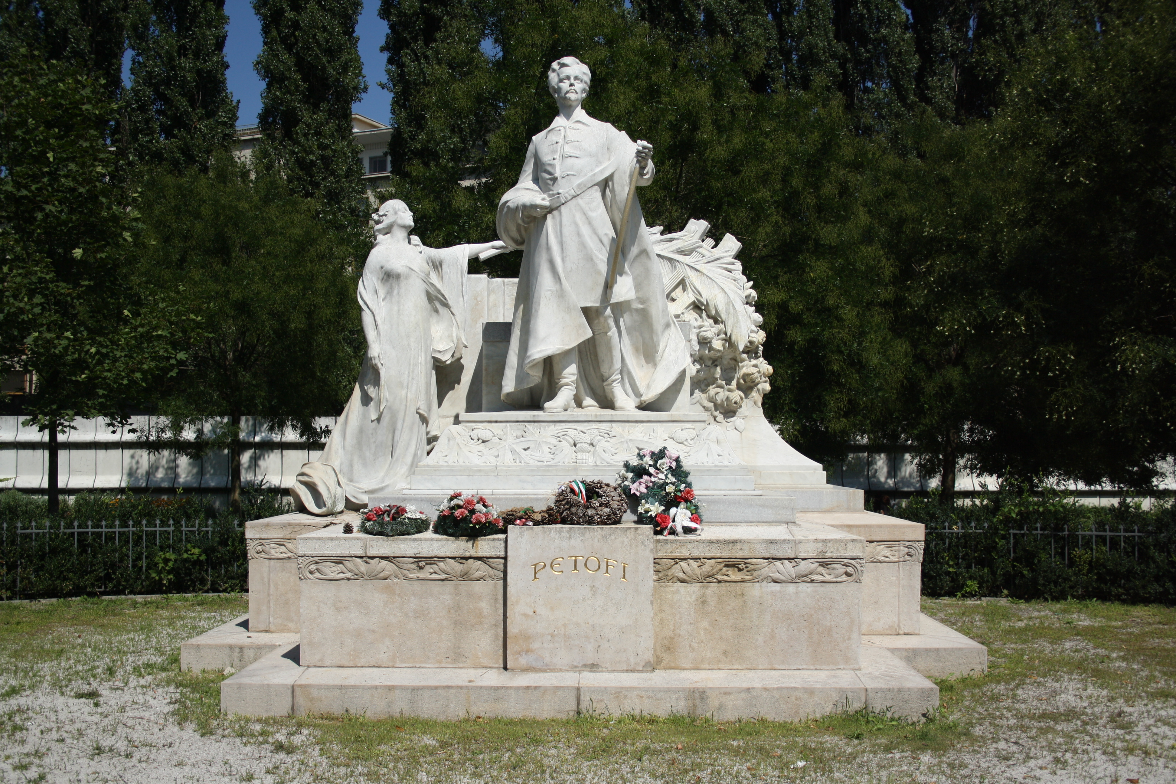 Statue of Sándor Petőfi in Medic Garden in Bratislava, Slovakia.